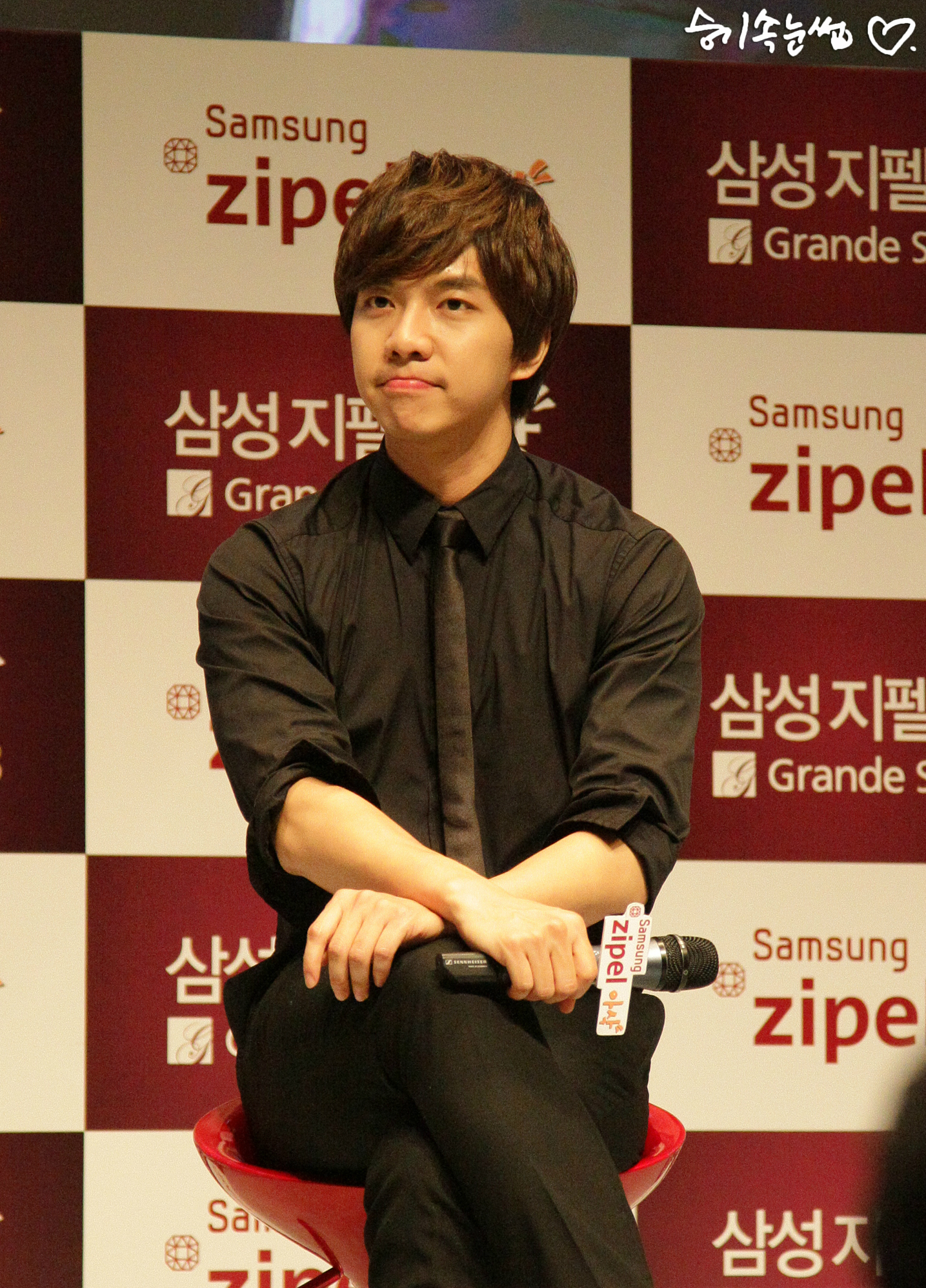 2011 Samsung Zipel Lee Seung-gi Fan meeting